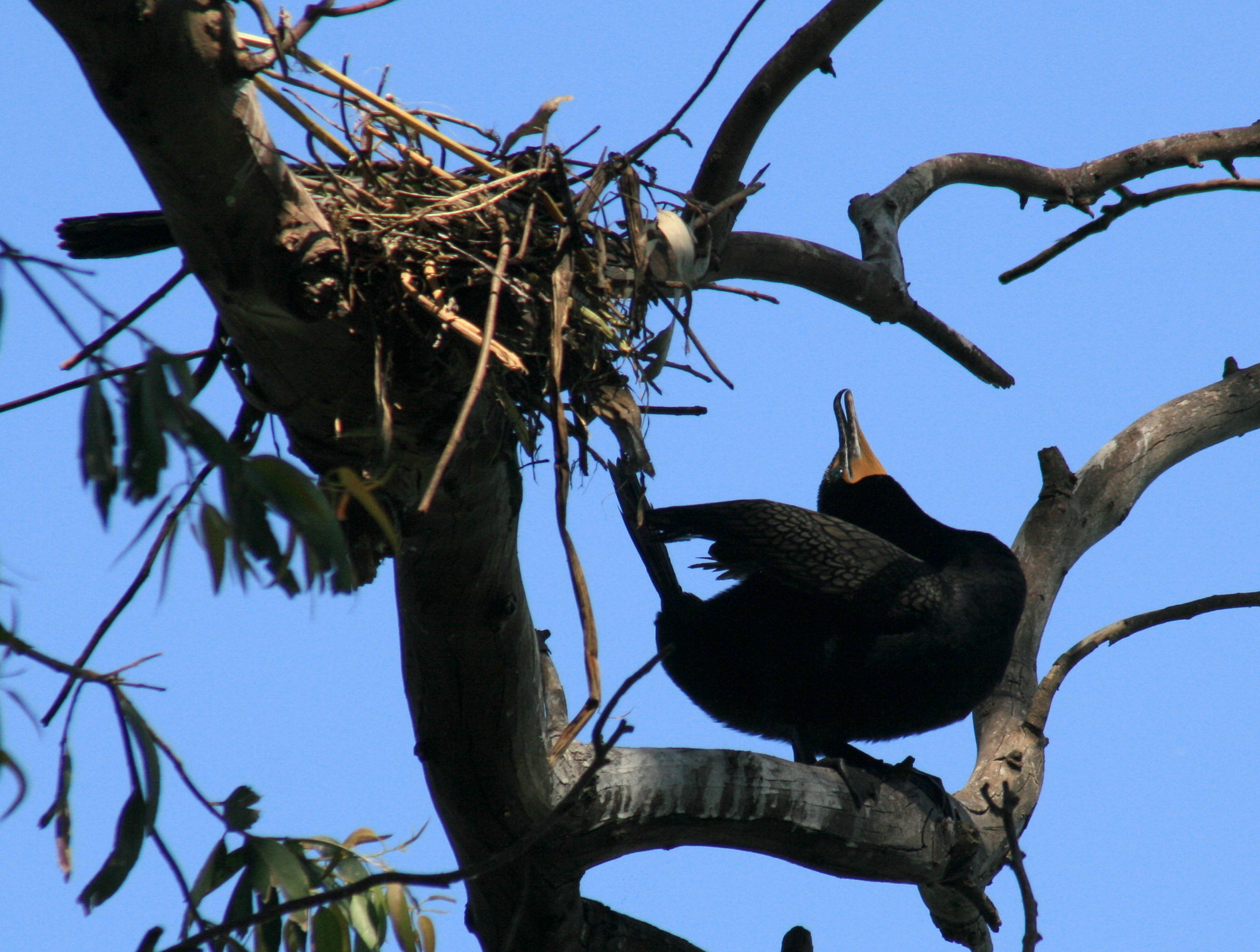 Double-crested Cormorants,Phalacrocorax auritus displays